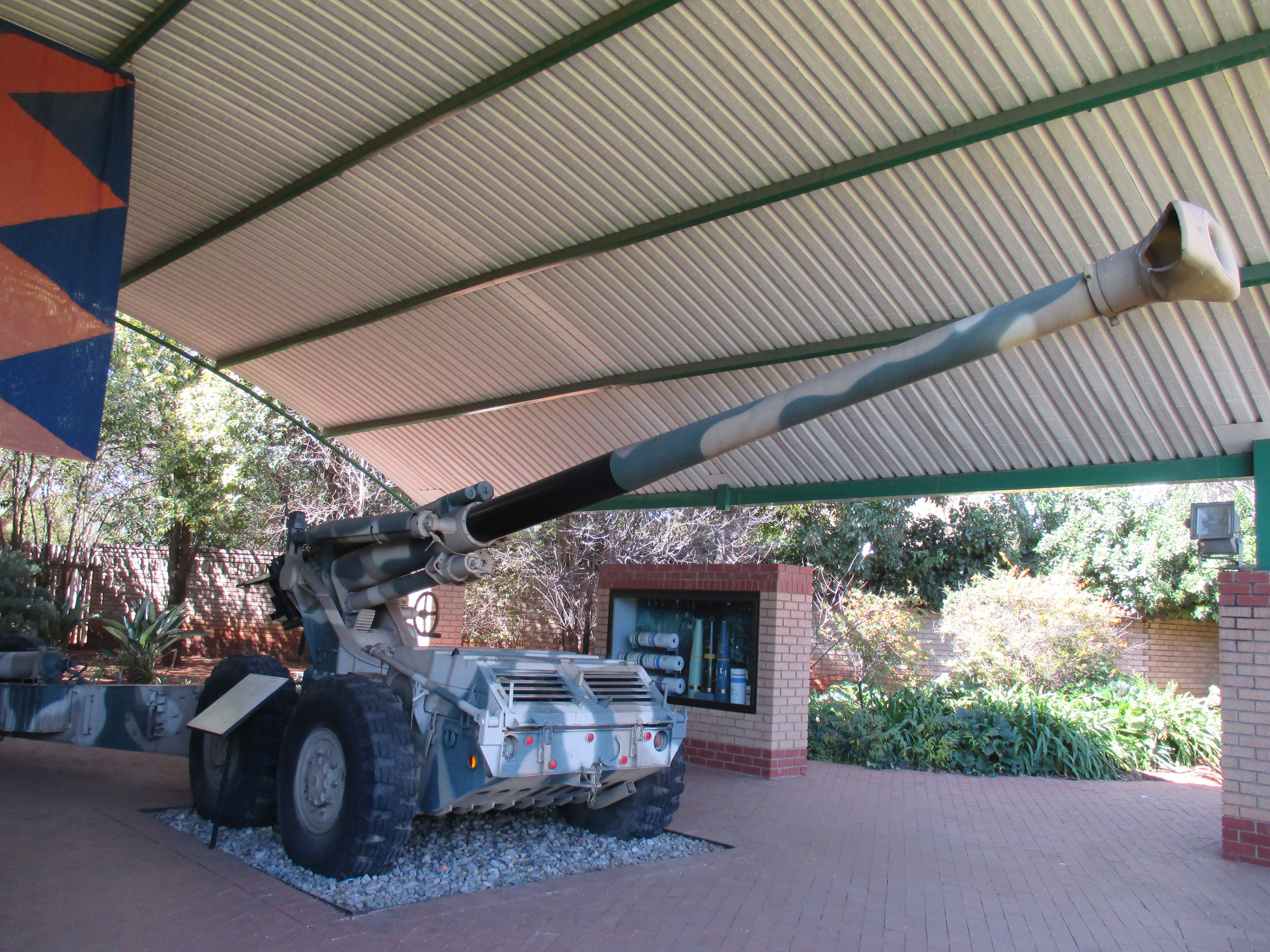 Description: G5 Howitzer at the South African National Museum of Military History, Johannesburg.